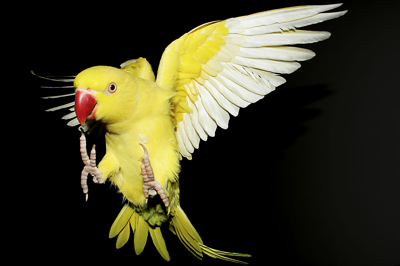 .Rose-ringed Parakeet also known as the Ring-necked Parakeet (yellow colour mutation). It is flying and looks like it is about to land having its feet foreward ready to land.